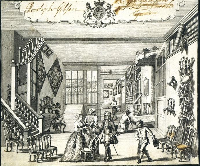 Trade card, 1730-1742 V&A Museum no. 14435:60 Techniques - Etching, ink on paper Artist/designer - Unknown Place - London, England (printing) Dimensions - Height 17.2 cm (unmounted), Width 21 cm Object Type - This object is a printed trade card. Trade cards were business cards and advertisements. Tradesmen often also used them to write receipts or bills on. Subject Depicted - The trade card depicts the interior of Christopher Gibson's upholstery shop in St Paul's Churchyard, London. Little is known of Christopher Gibson's upholstery business, which is recorded from 1730 to 1745, except that on two occasions he supplied chairs to the East India Company for furnishing East India Company House in leadenhall Street, London. Several upholsterers can be seen at work around the shop, and a wide range of goods is displayed. There are several cane chairs, chairs with upholstered seats, rolls of fabric, a mirror and an angel bed (a bed with a canopy which attaches to the back wall). Funerary 'hatchments' (the coats of arms on black backgrounds) can also been seen hanging near the stairs. Although the trade card is probably not an accurate representation of the interior of Christopher Gibson's shop, all the objects included would have been chosen to show the range of goods that Gibson could supply. The fact that the funerary equipment is included therefore suggests that Gibson's business included the furnishing of funerals alongside the upholstery of furniture. The well-dressed man in the centre is possibly meant to be Christopher Gibson himself, showing a chair to two the two women, likely customers.